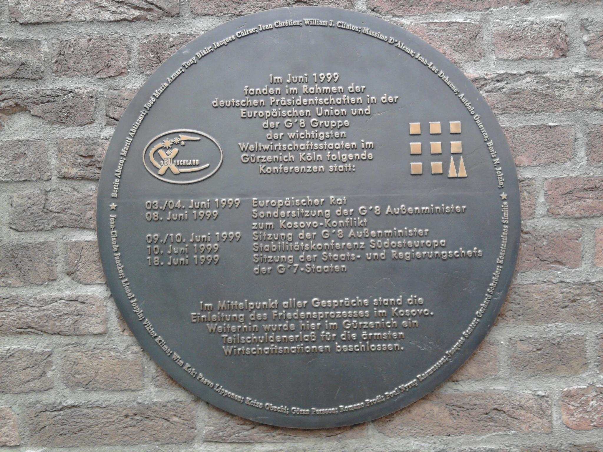 Commemorative plaque at the Gürzenich, Cologne, Germany